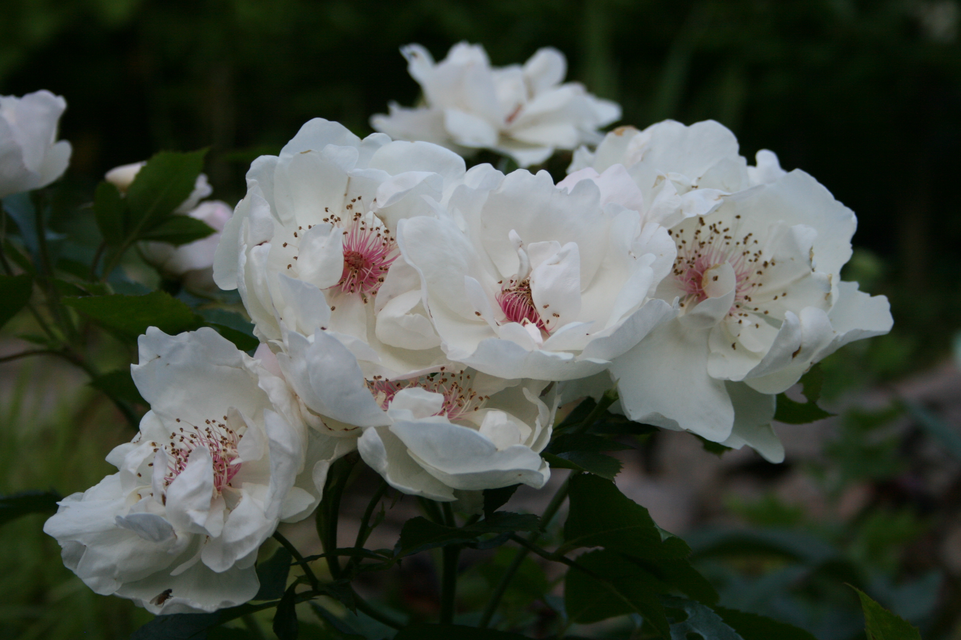 Rosa 'Harwanna' (exhibition name: Jacqueline du Pré)